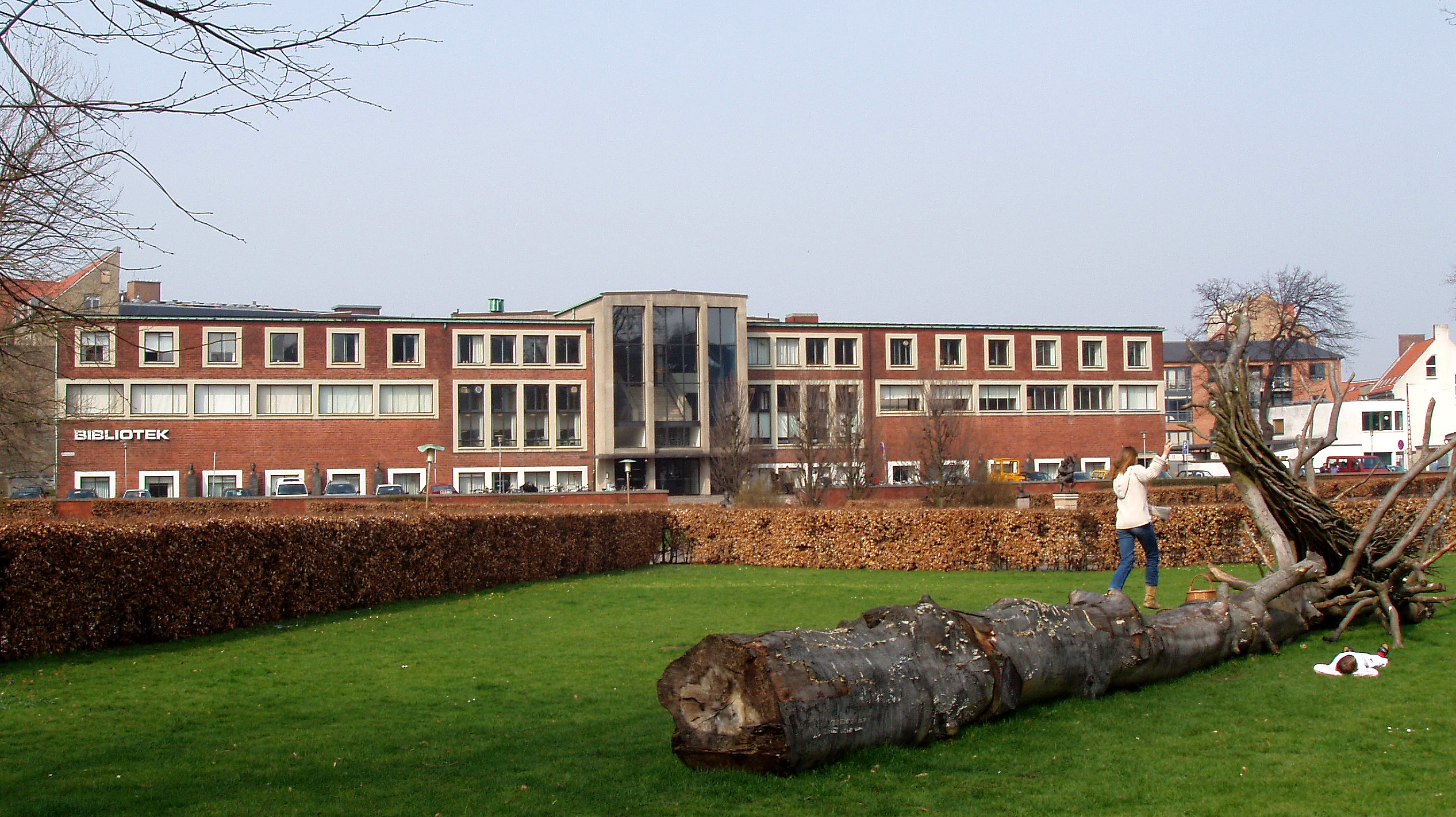 Mainlibrary in Aarhus, Denmark. Before the rebuilding of the park in the late 2000's.